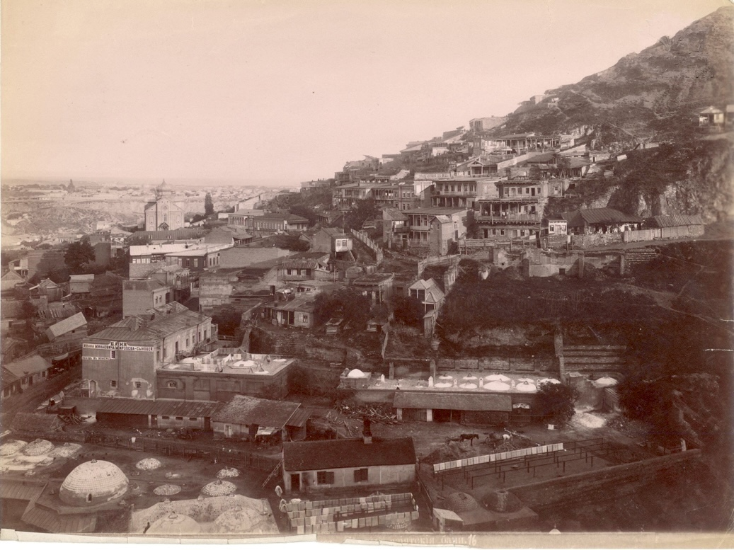 Tbilisi Abanotubani and Surb Sargisi church